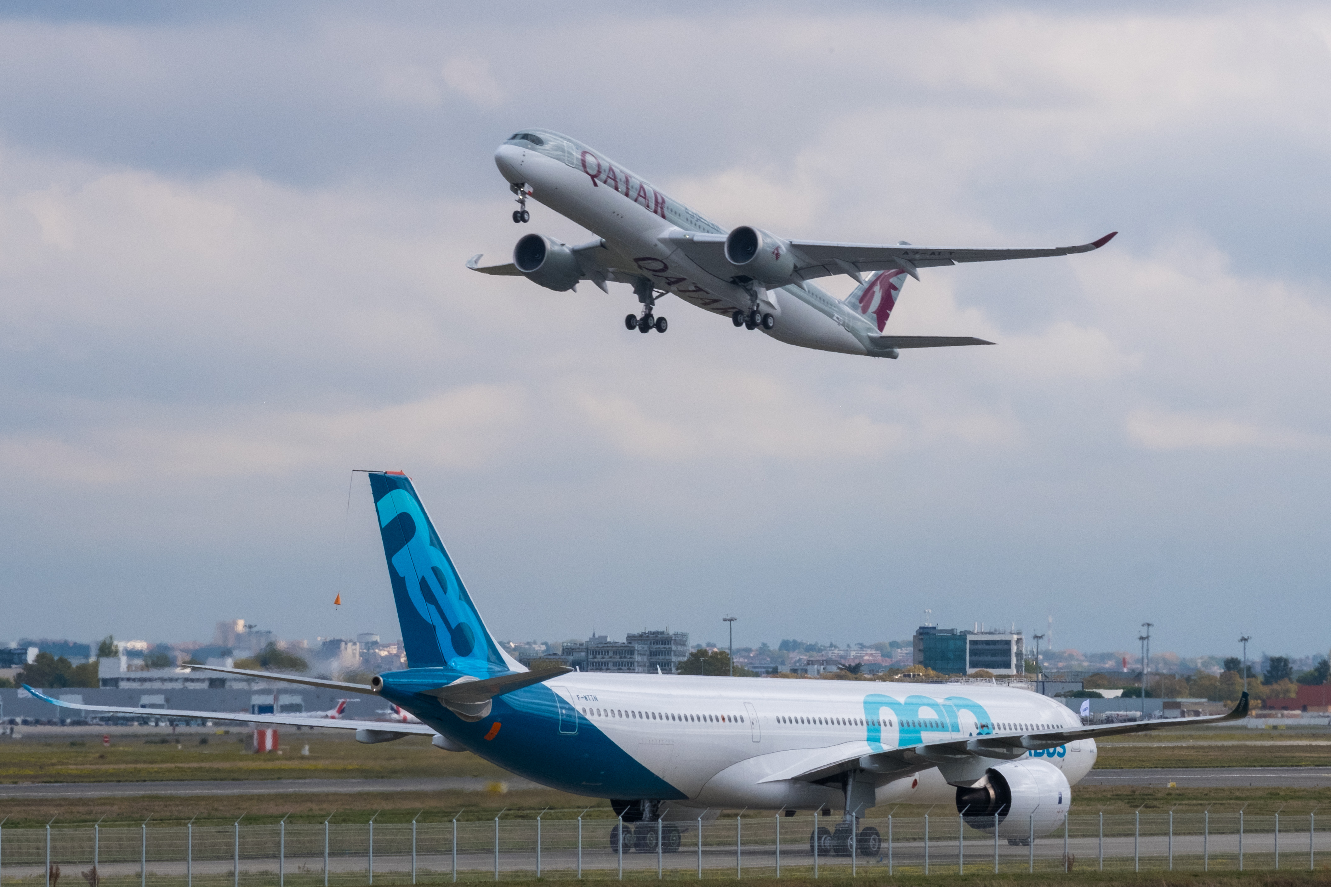 Airbus A330neo and A350 19 October 2017, Toulouse, France.